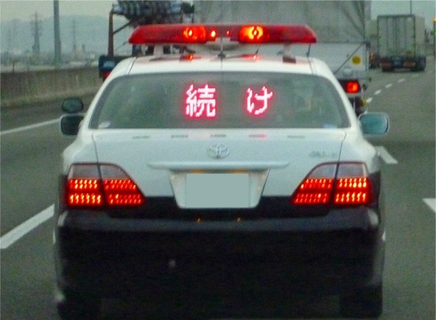 Electronic display board of Japanese police car